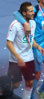 Cabaye Coupe de France Winner (LOSC)